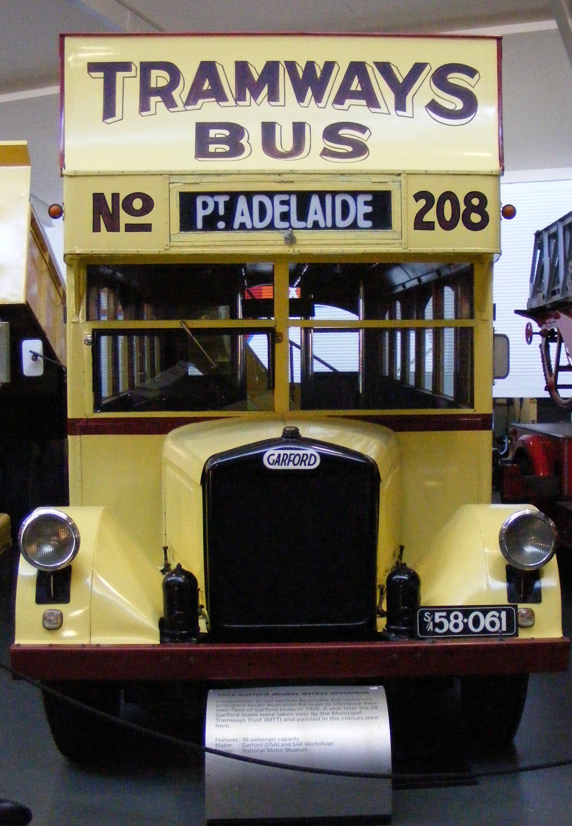 1926 Garford double decker motor bus. Purchased by the South Australian railways to compete against private buses. Used from 1927 by the Adelaide Metropolitan Tramways Trust (MTT) in the colours shown. On display at the National motor museum, Birdwood, south Australia.